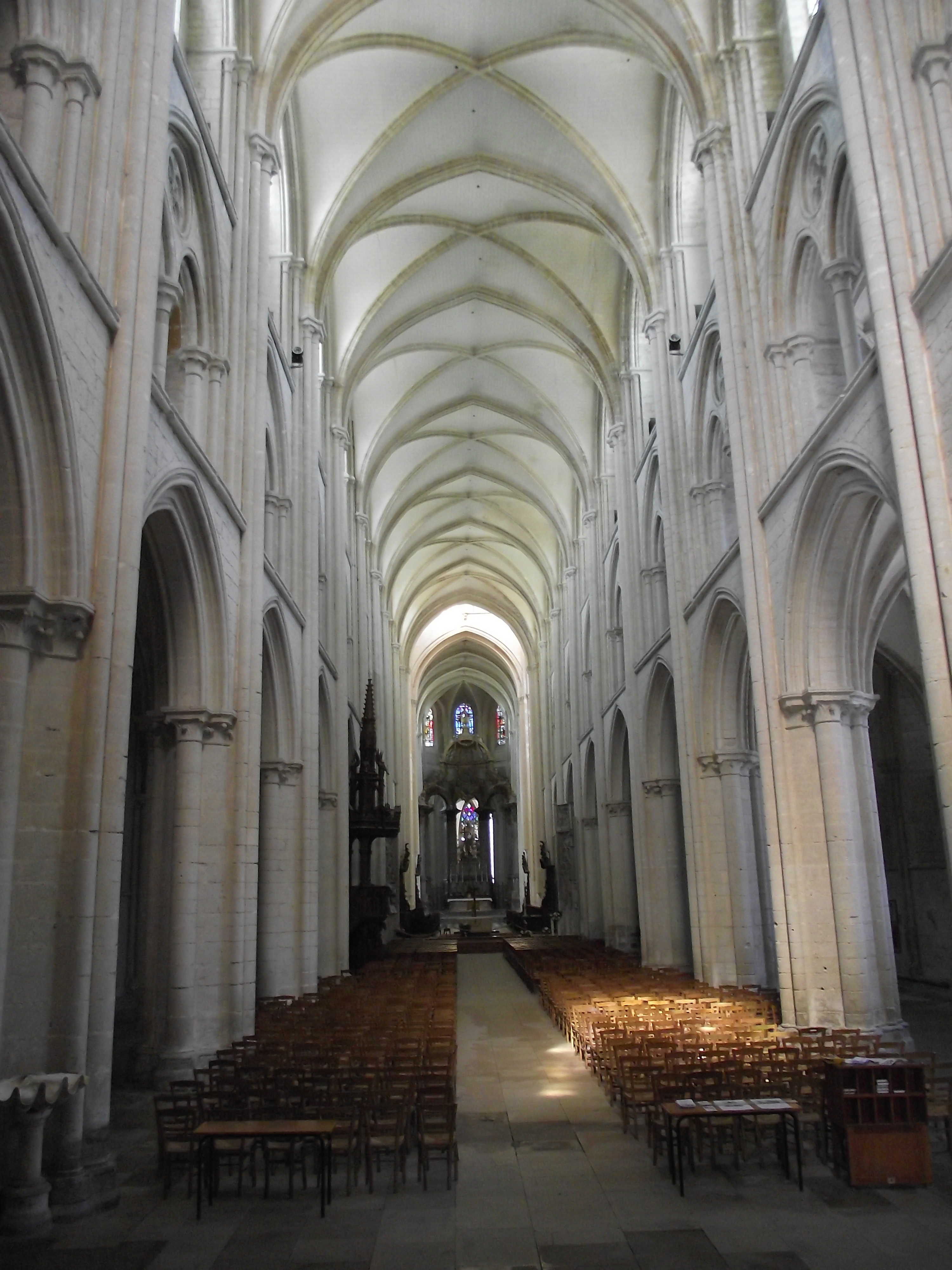 Fécamp, Trinity Abbey, XII-XIII Century